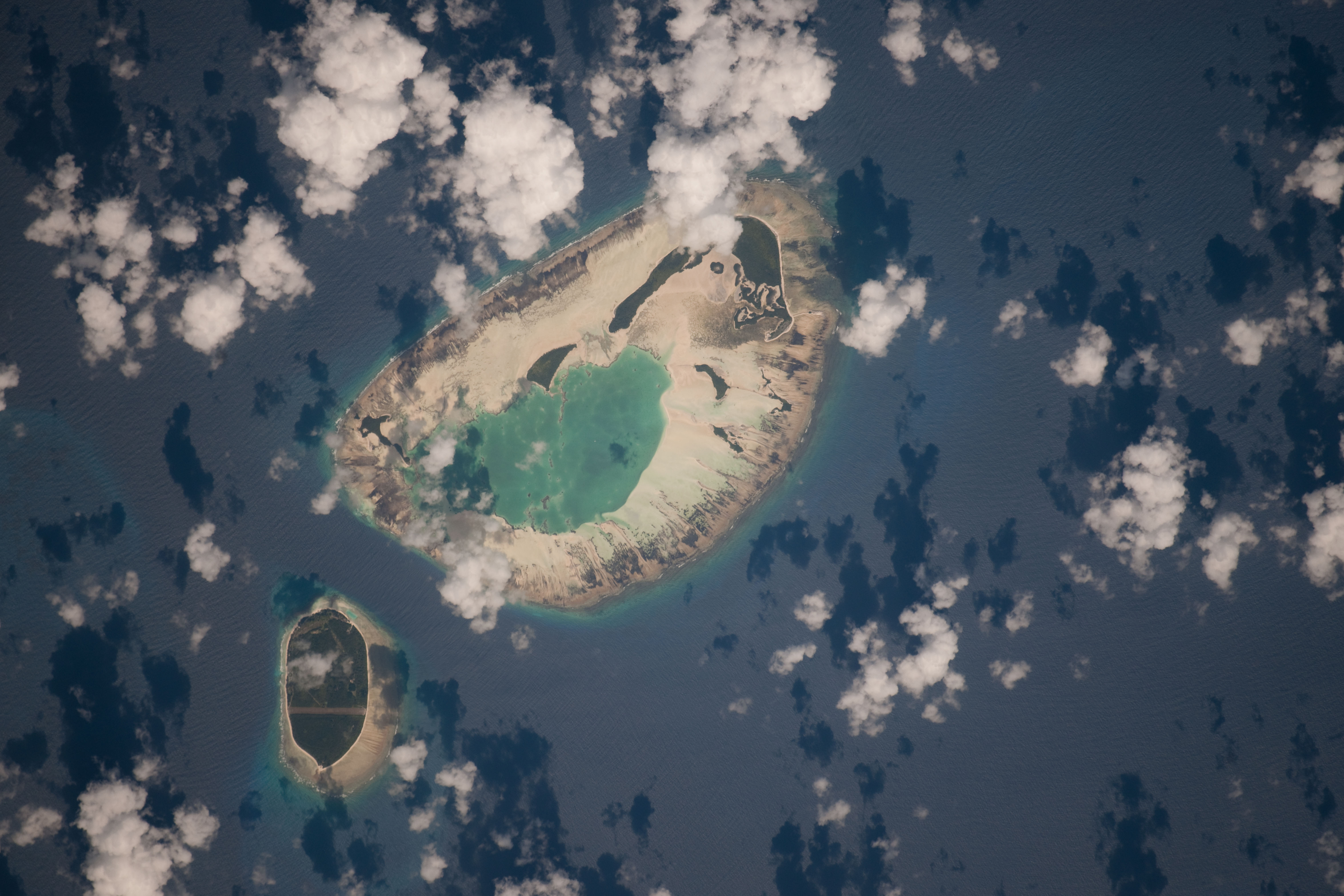 NASA astronaut image of Saint-Joseph Island and Arros Island( Amirantes Group, Seychelles) in the Indian Ocean